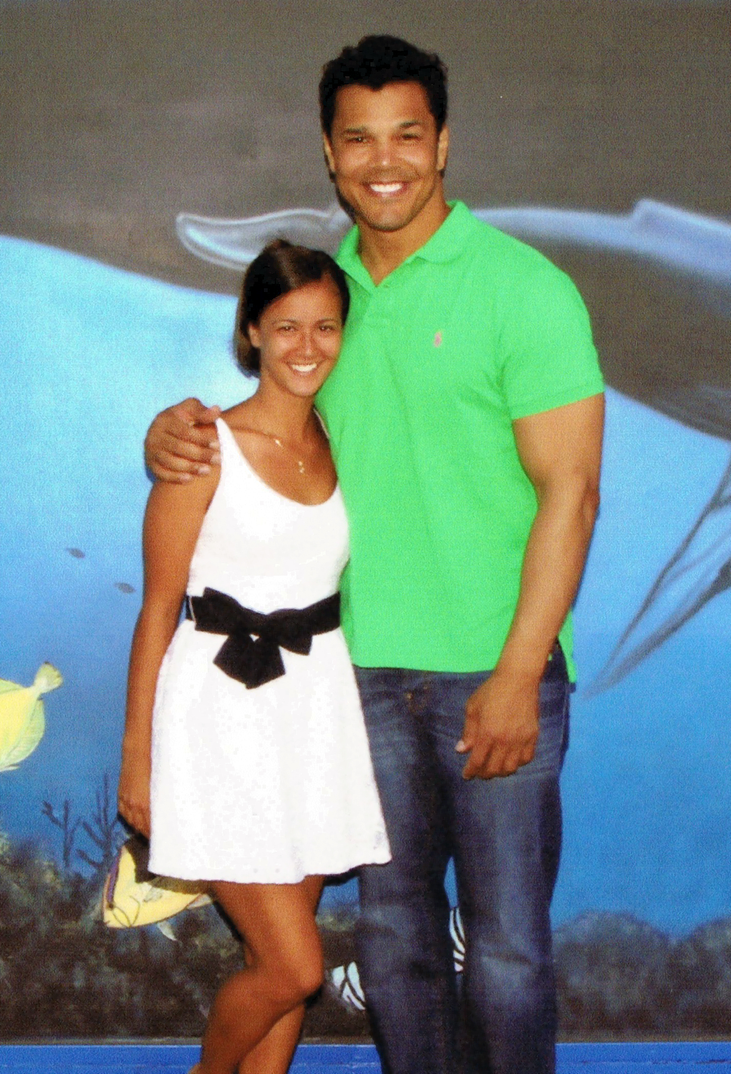 Together since 2011